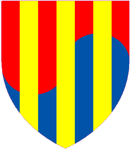 Shield of arms of Sir David John Wright